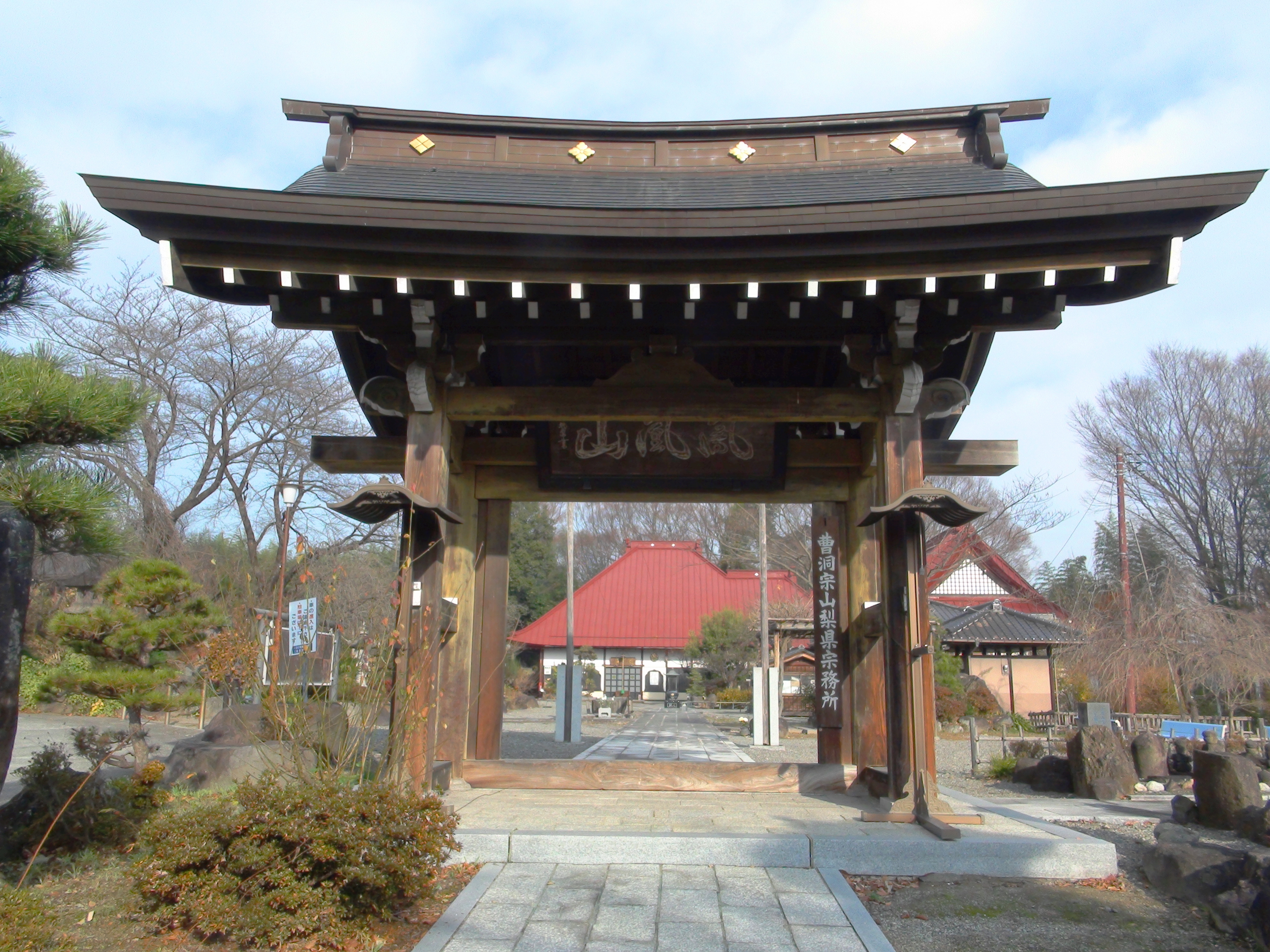 Ganjoji Temple main gate Nirasaki city